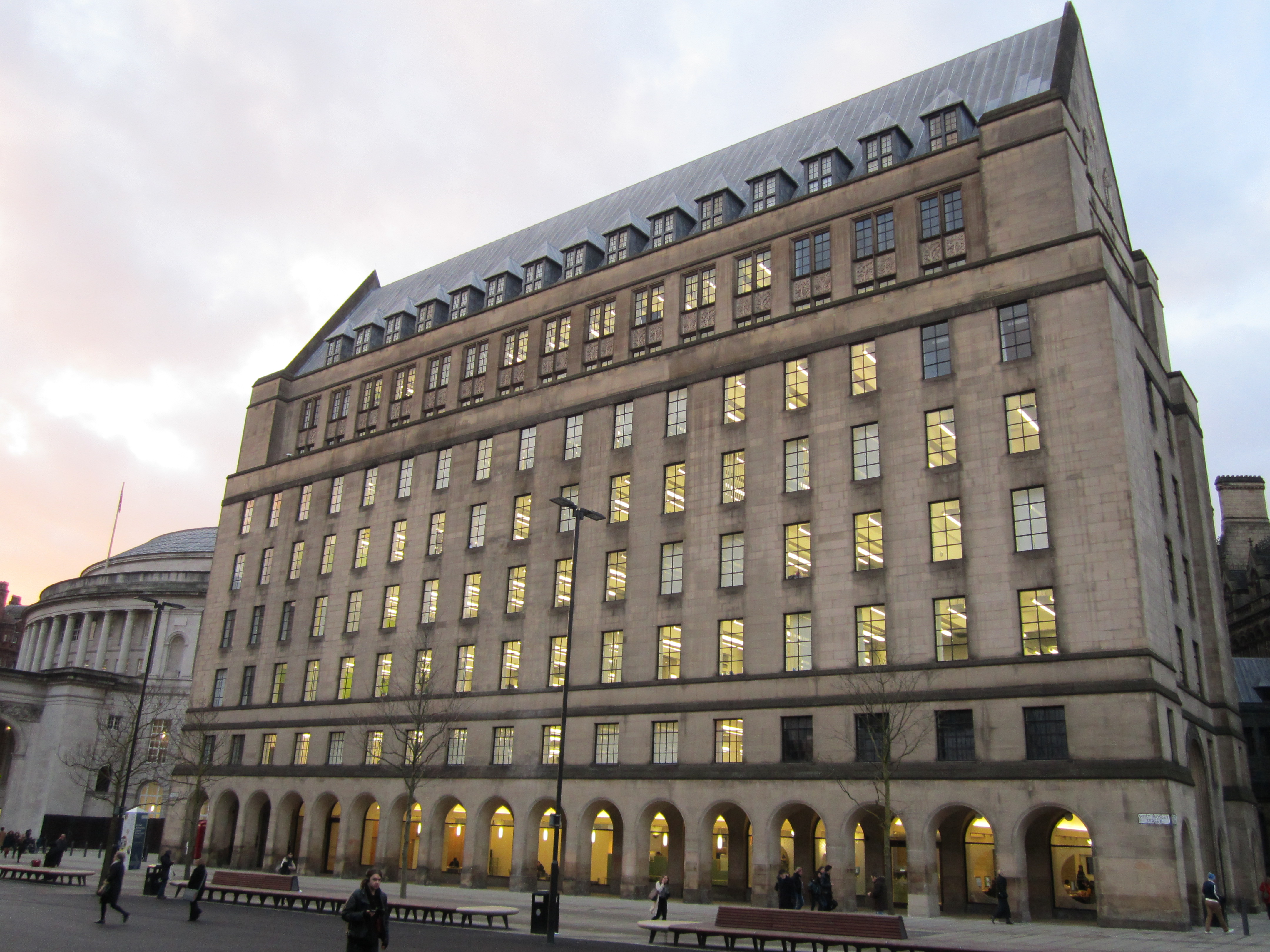 Manchester Town Hall Extension in St Peter's Square.